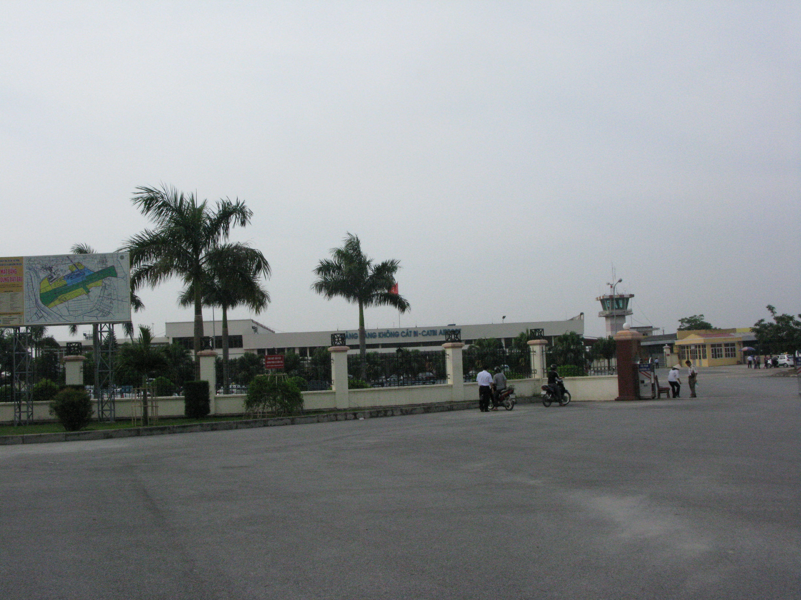 Cát Bi International Airport, Haiphong, Vietnam